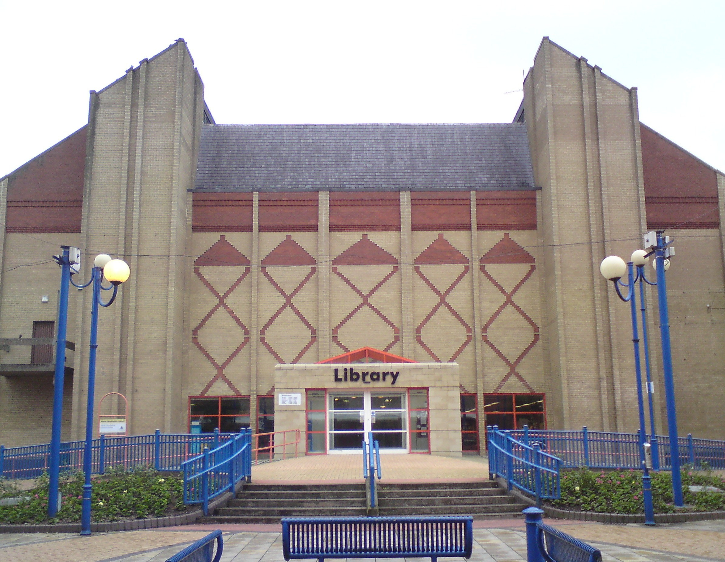 North Lincolnshire Library